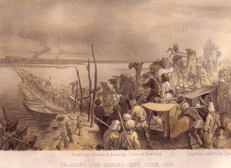 "Crossing the Ganges into Oude (Awadh) , 1858," William Howard Russell, 'My Diary in India', vol. 1, 1860